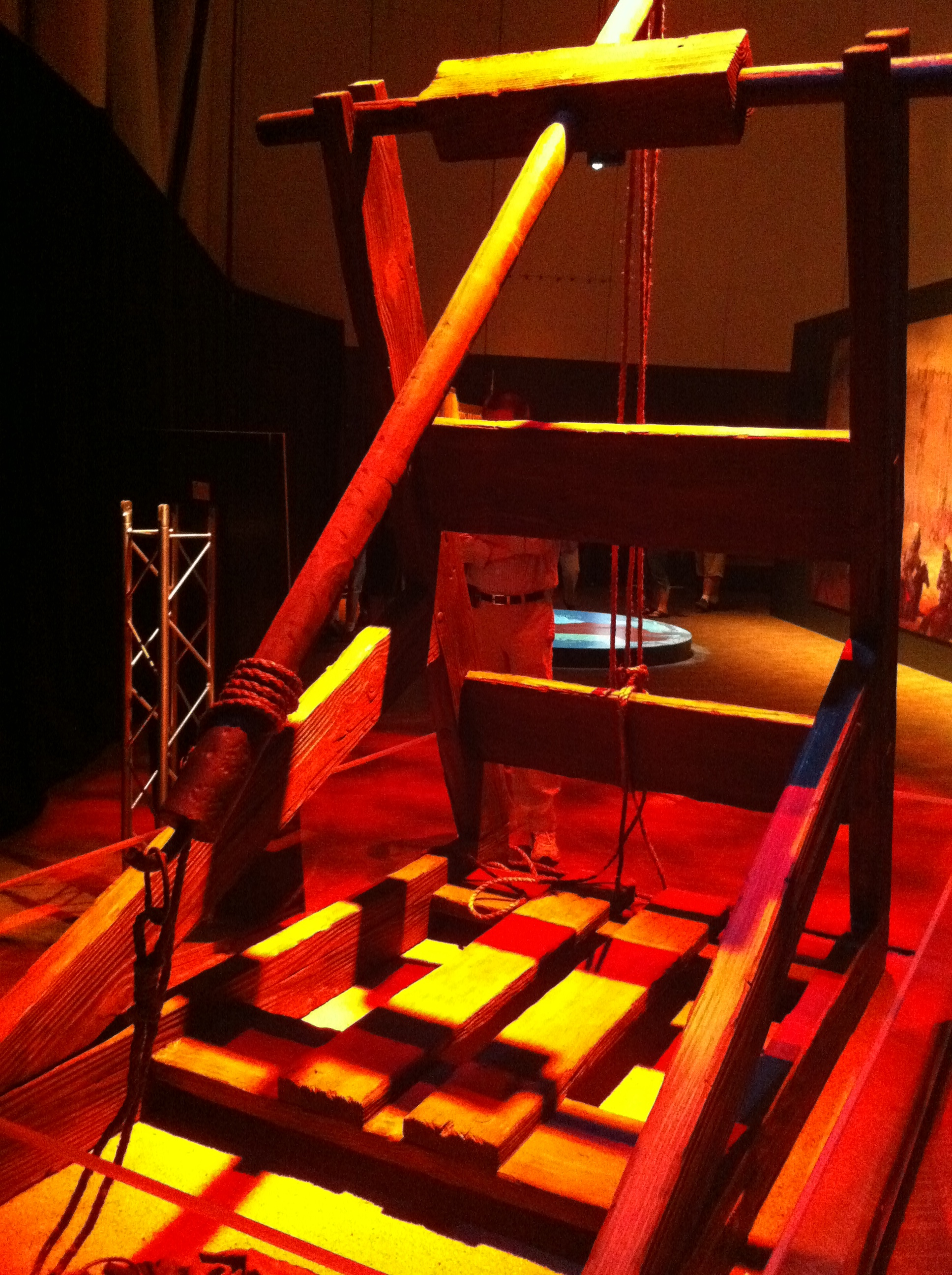 “Traction Trebuchet This is a modern replica of the traction trebuchet, first developed by the Chinese in the 5th century BCE. The trebuchet is a variation of the catapult, a device that uses the mechanical advantage of the lever to hurl a heavy projectile hundreds of feet. The Mongols adopted this technology from the Chinese, and such weapons played a significant role in Mongol attacks on Korean in the 13th century. To fire this weapon, warriors would grab the rope attached to the catapult arm and pull the line backward, propelling the lever frontward to heave a projectile at the enemy. The attachment of the projectile to a flexible sling at the end of the lever arm increased the throwing force. Later Mongol trebuchets were based on the counter weight trebuchet, also known as the "Muslim trebuchet," which used the force of gravity on a heavy weight rather than the power of human haulers to howl the projectile. The Mongol introduced the counterweight trebuchet to China during the reign of Kublai Khan.”